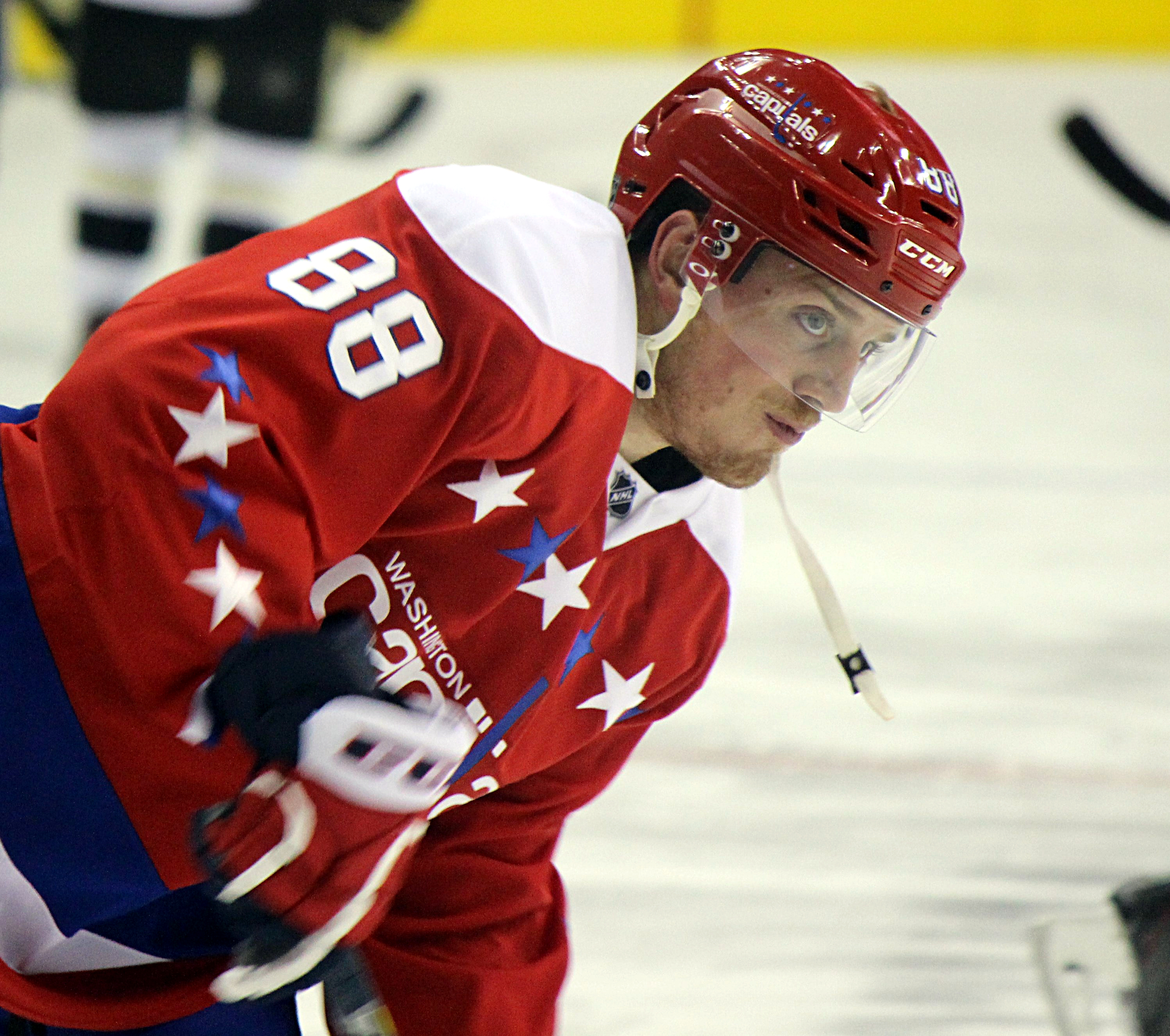 Washington Capitals defenseman Nate Schmidt during a game against the Pittsburgh Penguins, Thursday, April 7, 2016 at Verizon Center in Washington, D.C.